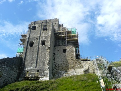 Corfe Castle maintenance work national trust